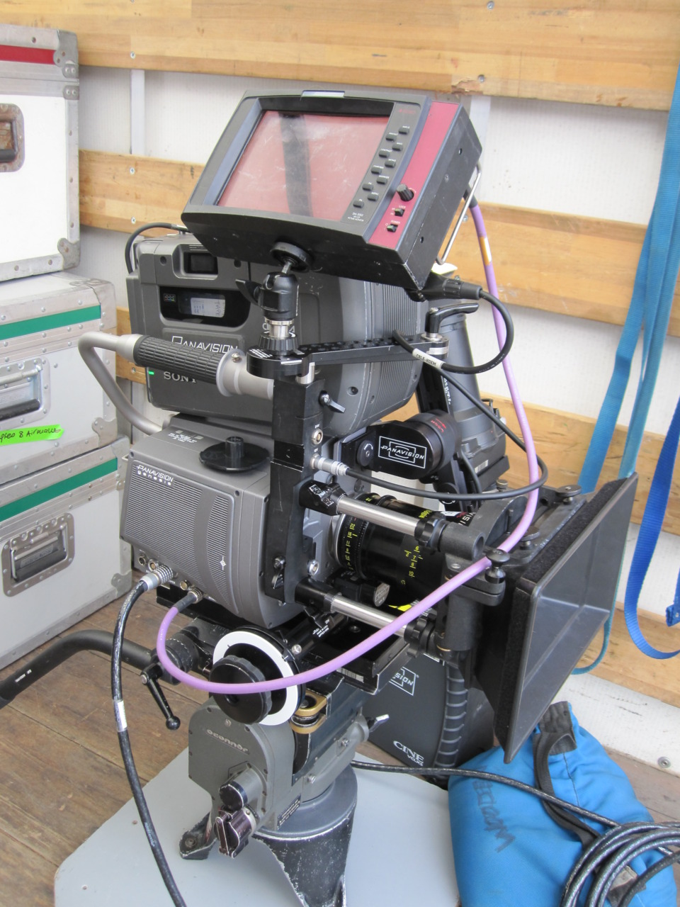 From the movie Love by William Eubank. A Genesis camera by Panavision on the set of "Love"